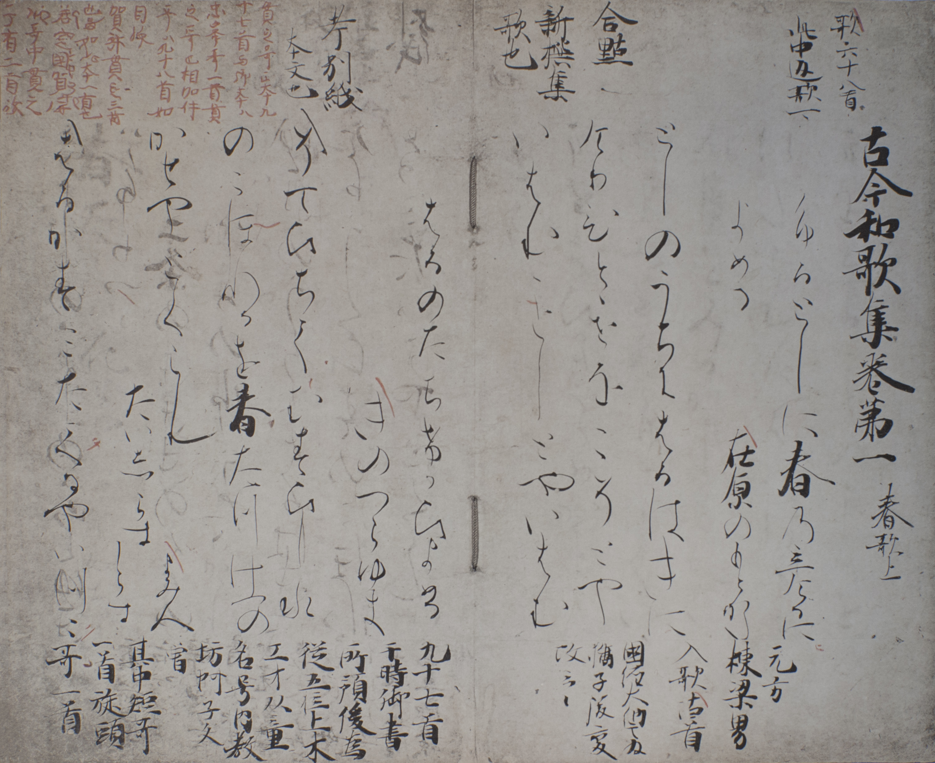 National Treasure of Japan